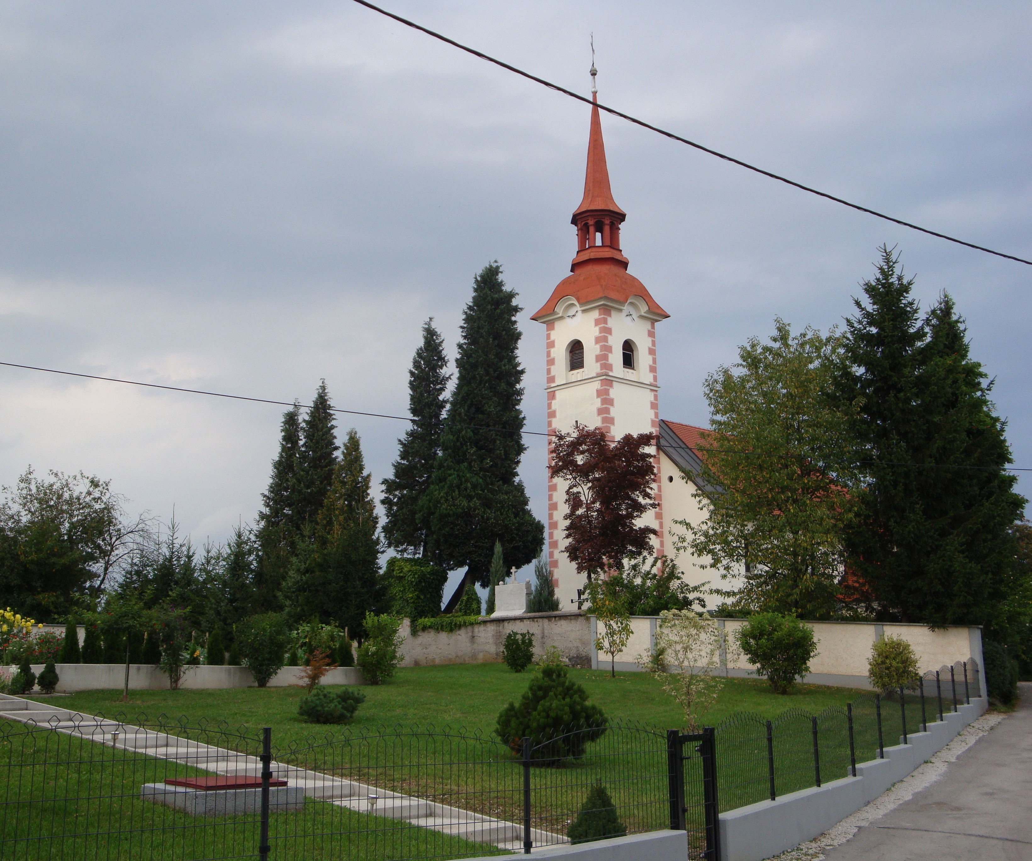 Stožice, Ljubljana, Slovenia